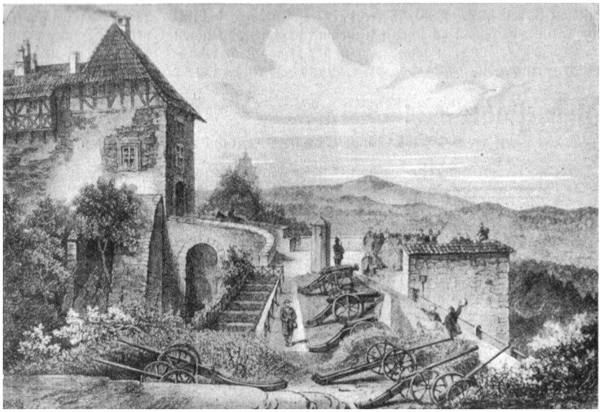 Visitors at the gate of Wartburg castle.